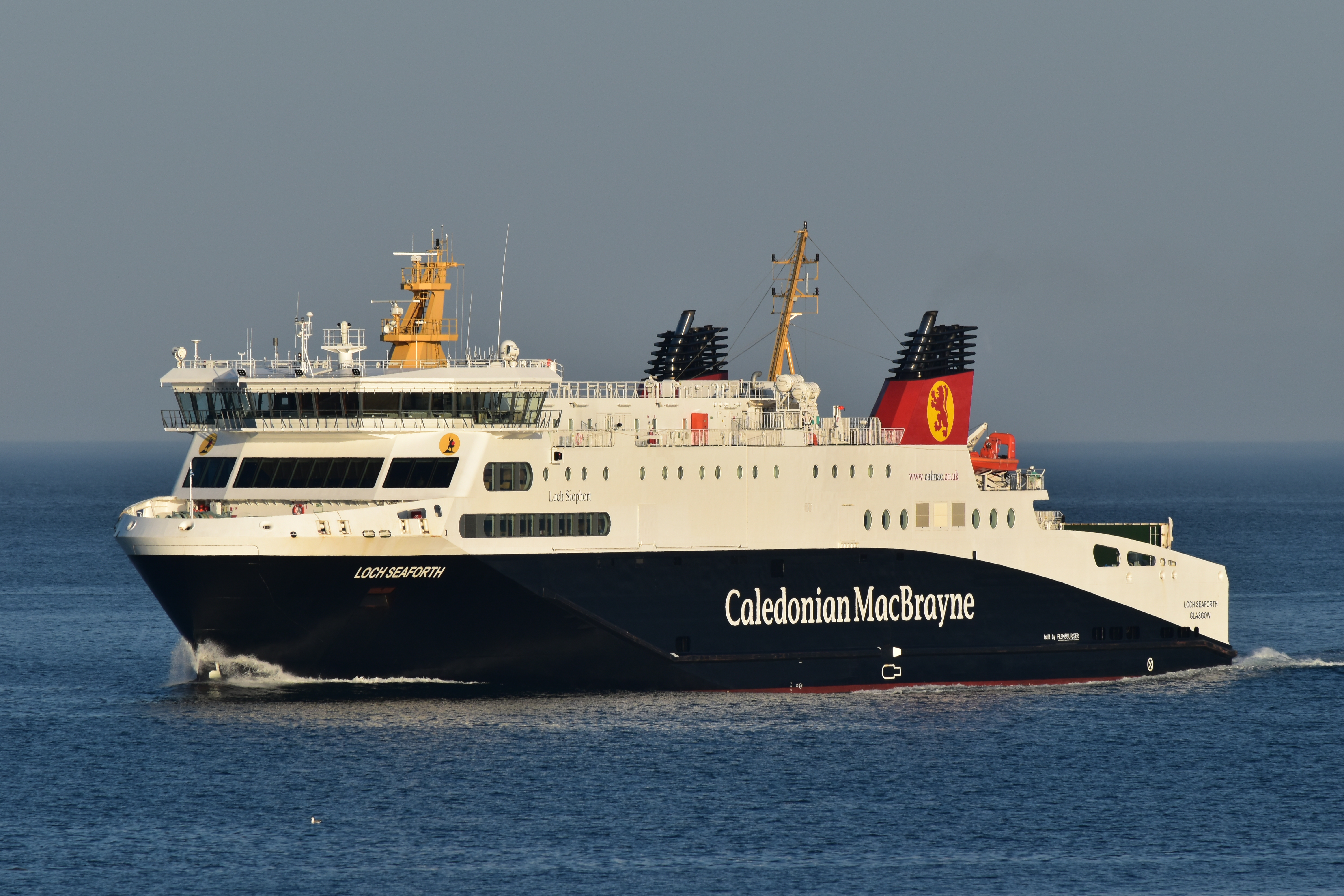 The Stornoway to Ullapool ferry for Caledonian MacBrayne approaching her home port at 8pm on 9 May 2016.